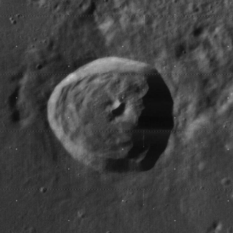 Archytas crater, on the moon.